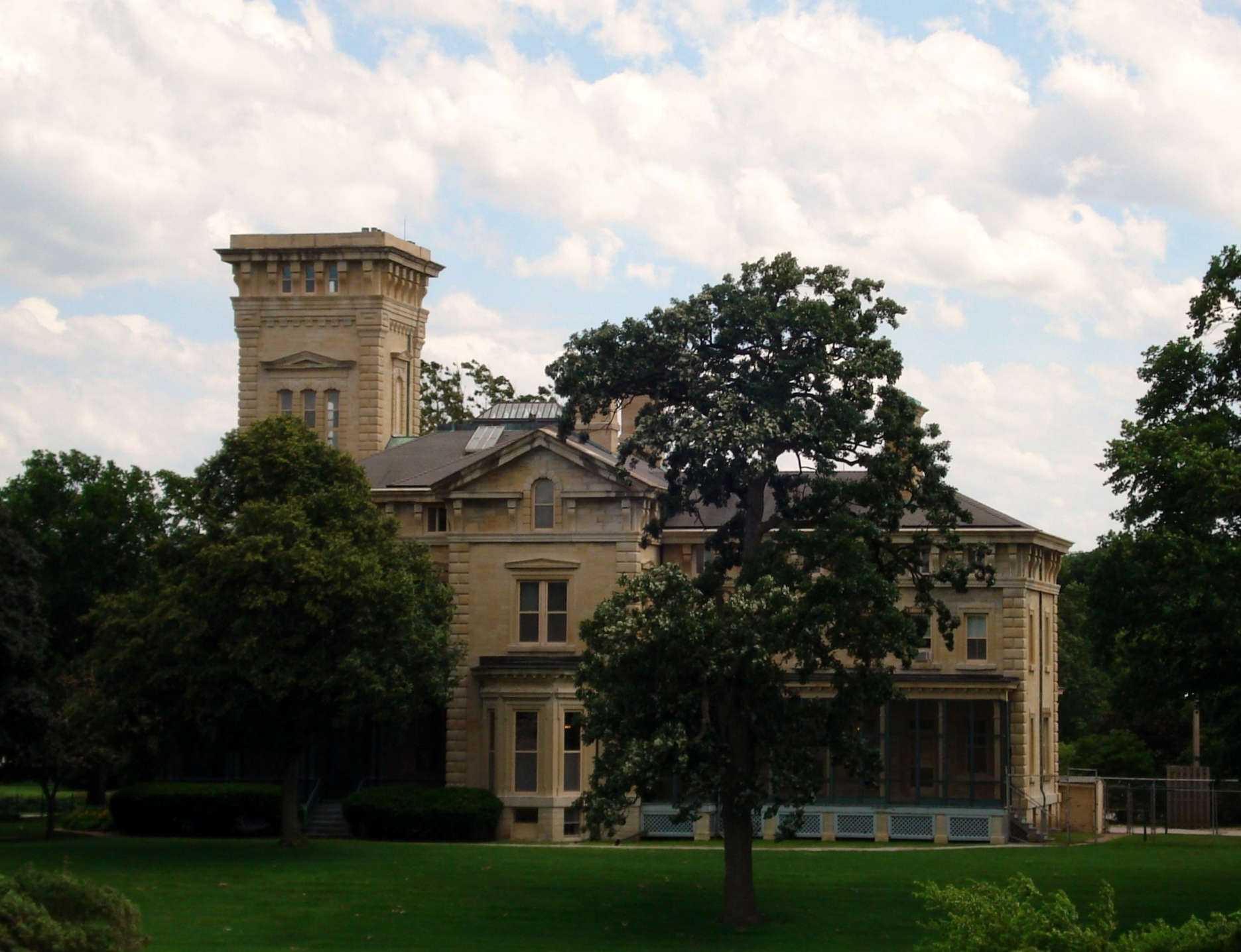 Located on Arsenal Island in Rock Island, Illinois.